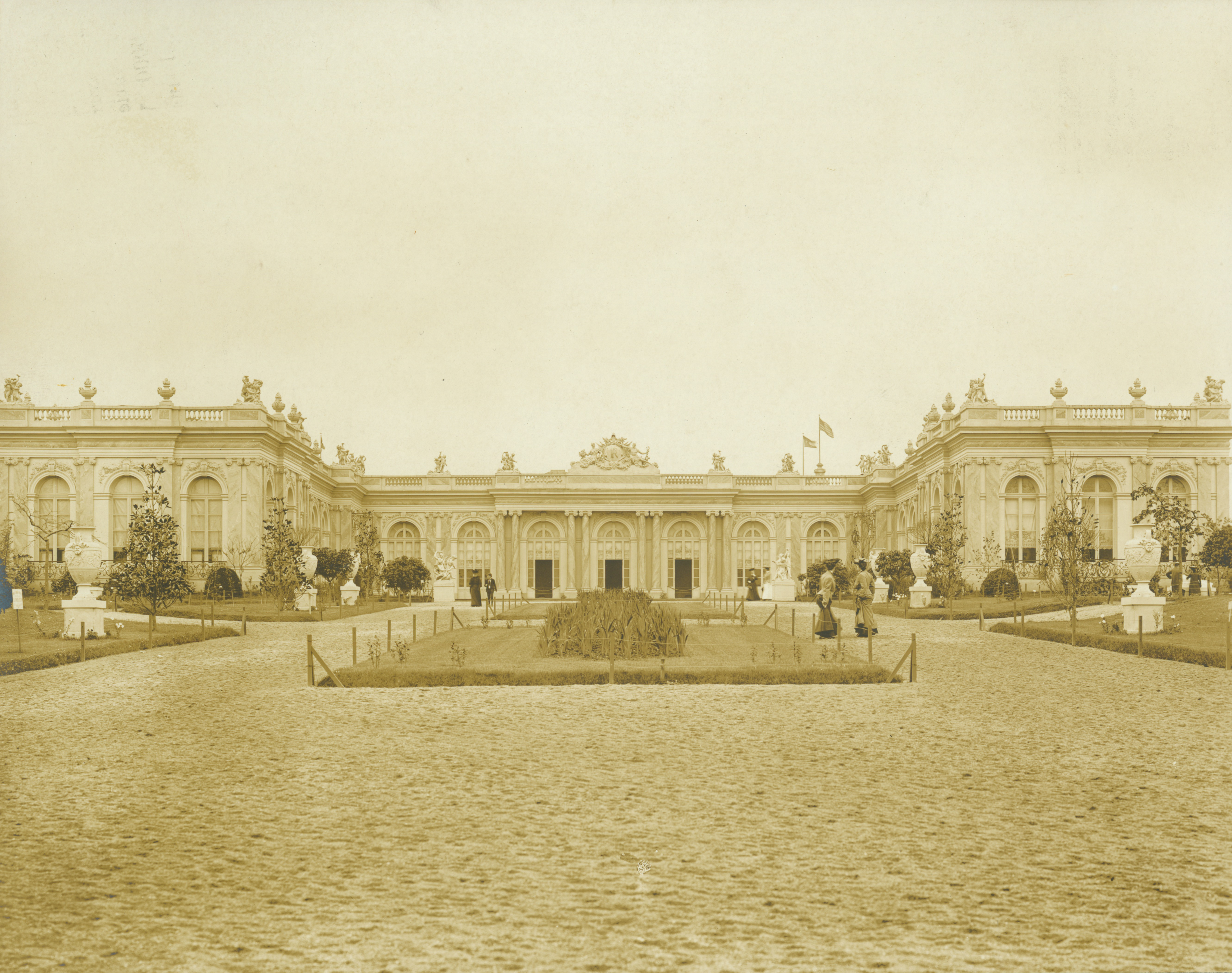 Title: French Pavilion, replica of the Grand Trianon (1904 World's Fair).